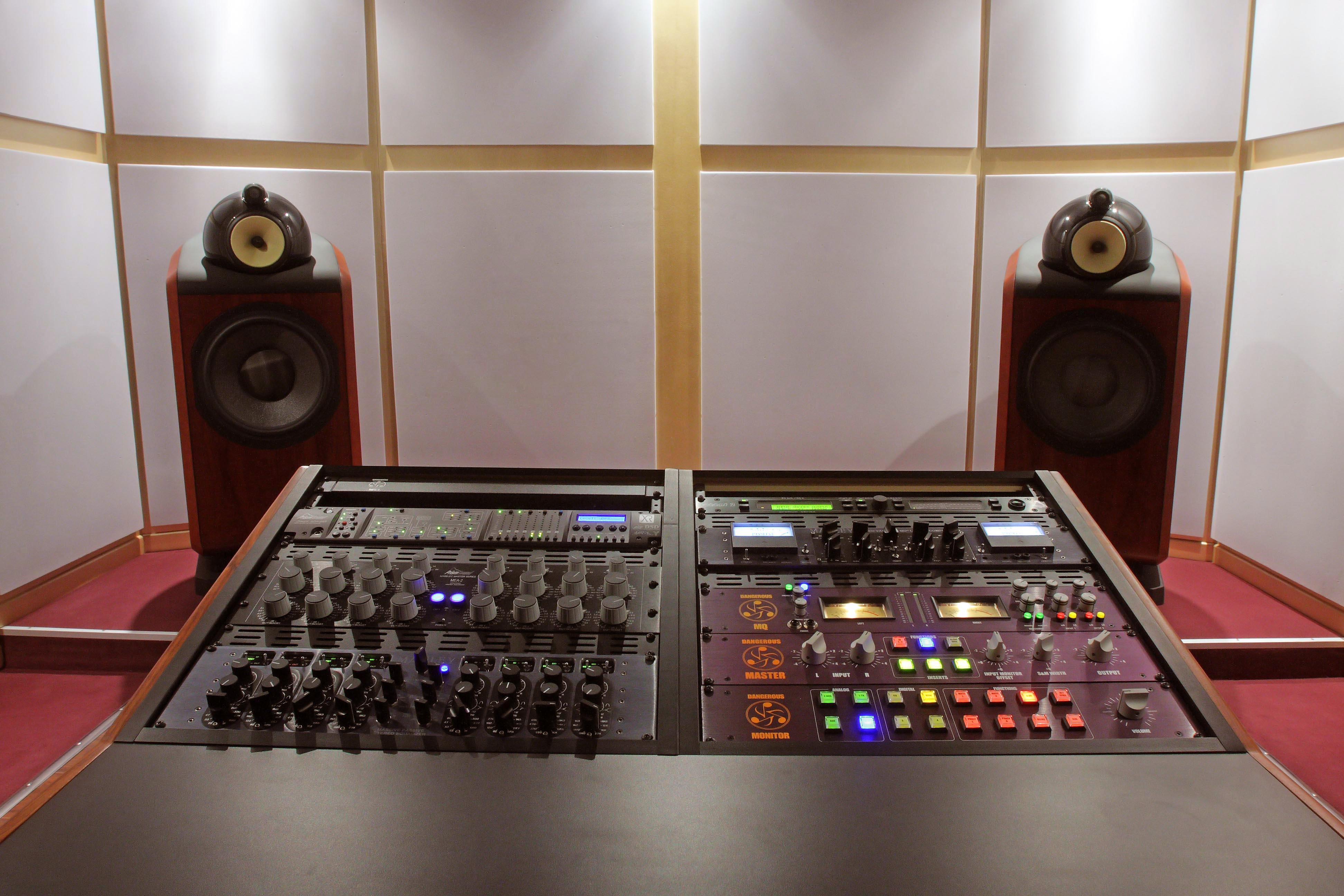 Master+ Studio